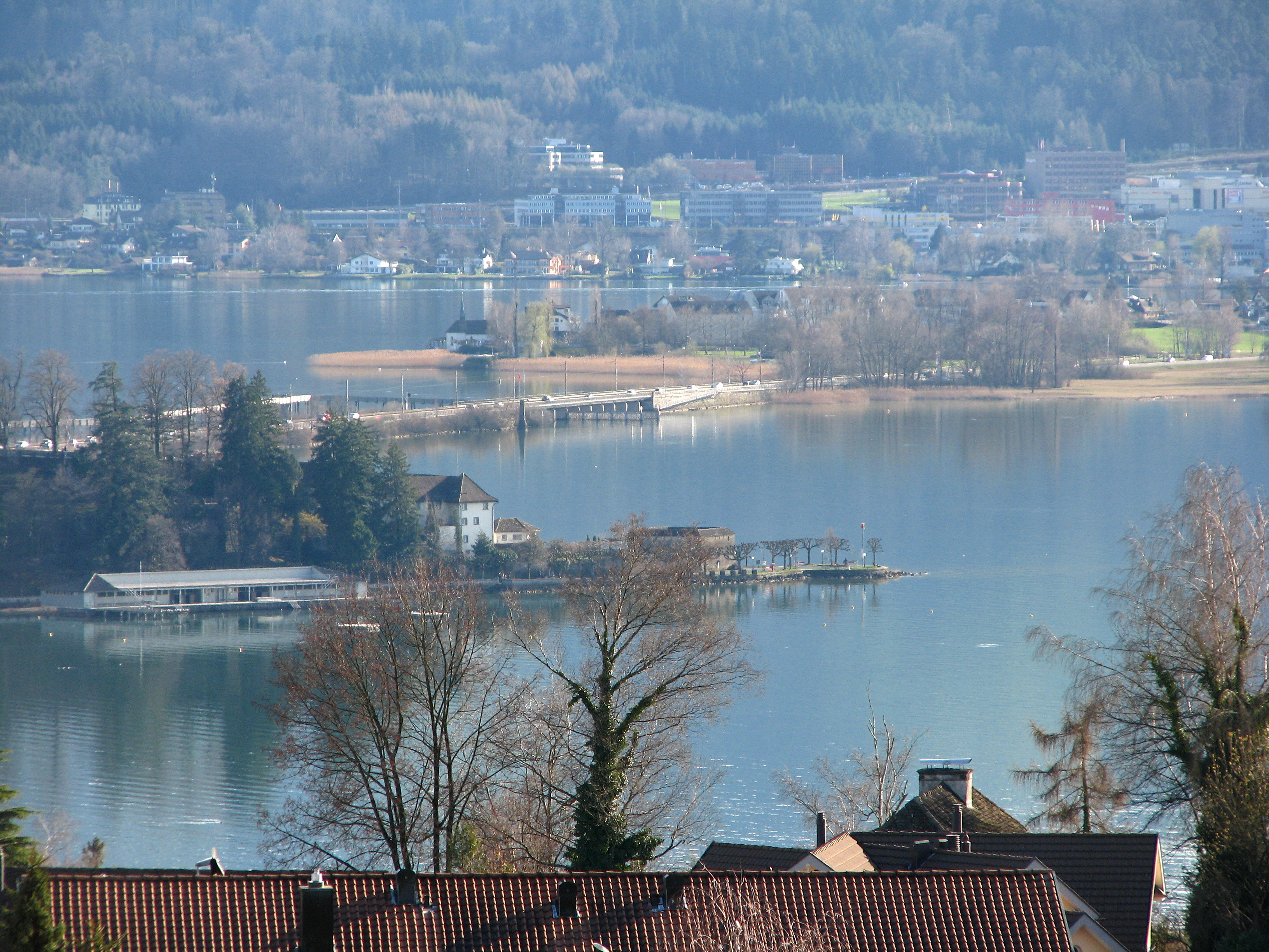 Kempratner Bucht (Bay of Kempraten) and Schloss Rapperswil respectively Lindenhof hill and Endingerhorn in Rapperswil (SG), as seen from Frohberg in Kempraten-Lenggis (Switzerland); Kapuzinerkloster to the right, Obersee (upper Lake Zürich) to the left, Seedamm and Hurden in the background.